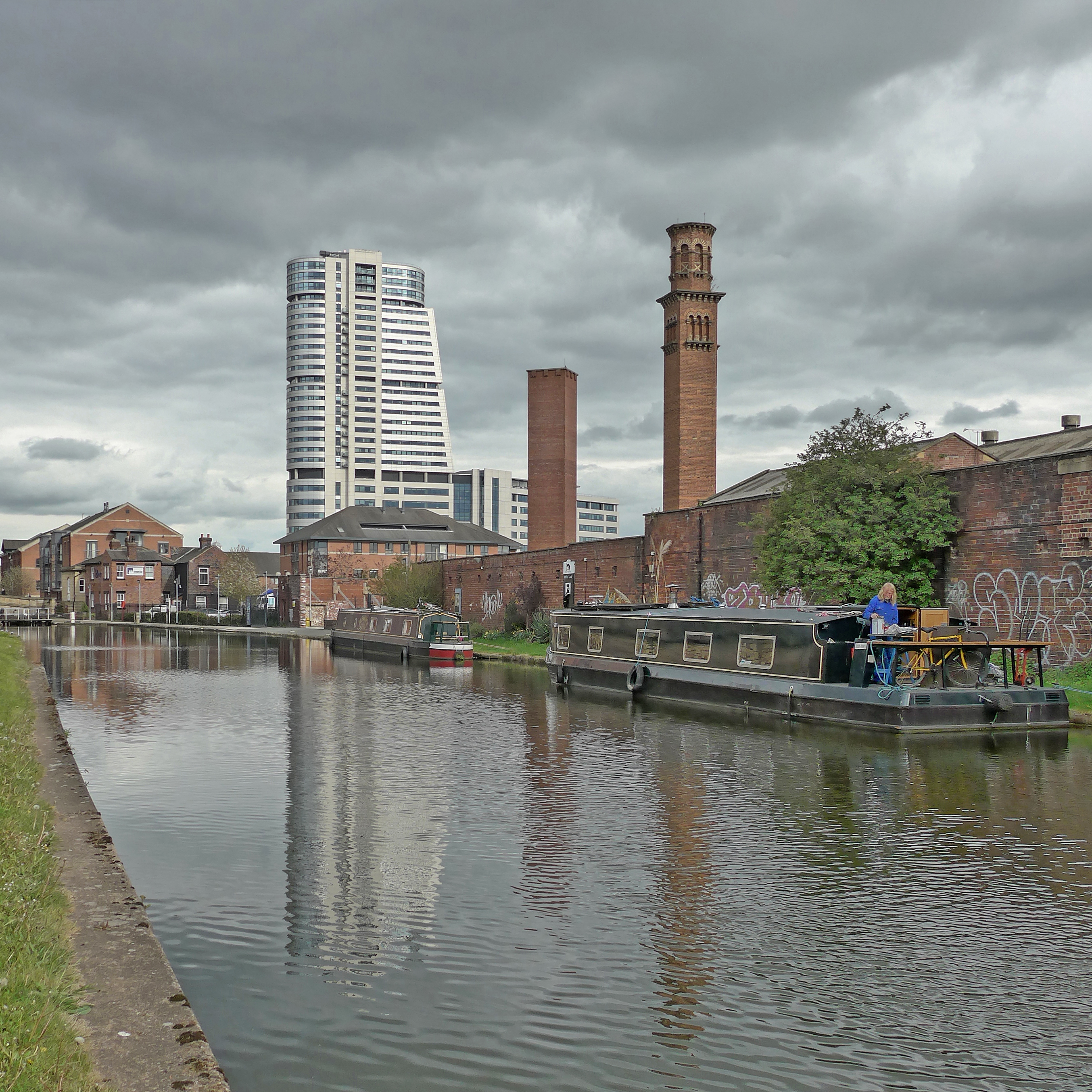 Leeds and Liverpool Canal, Leeds